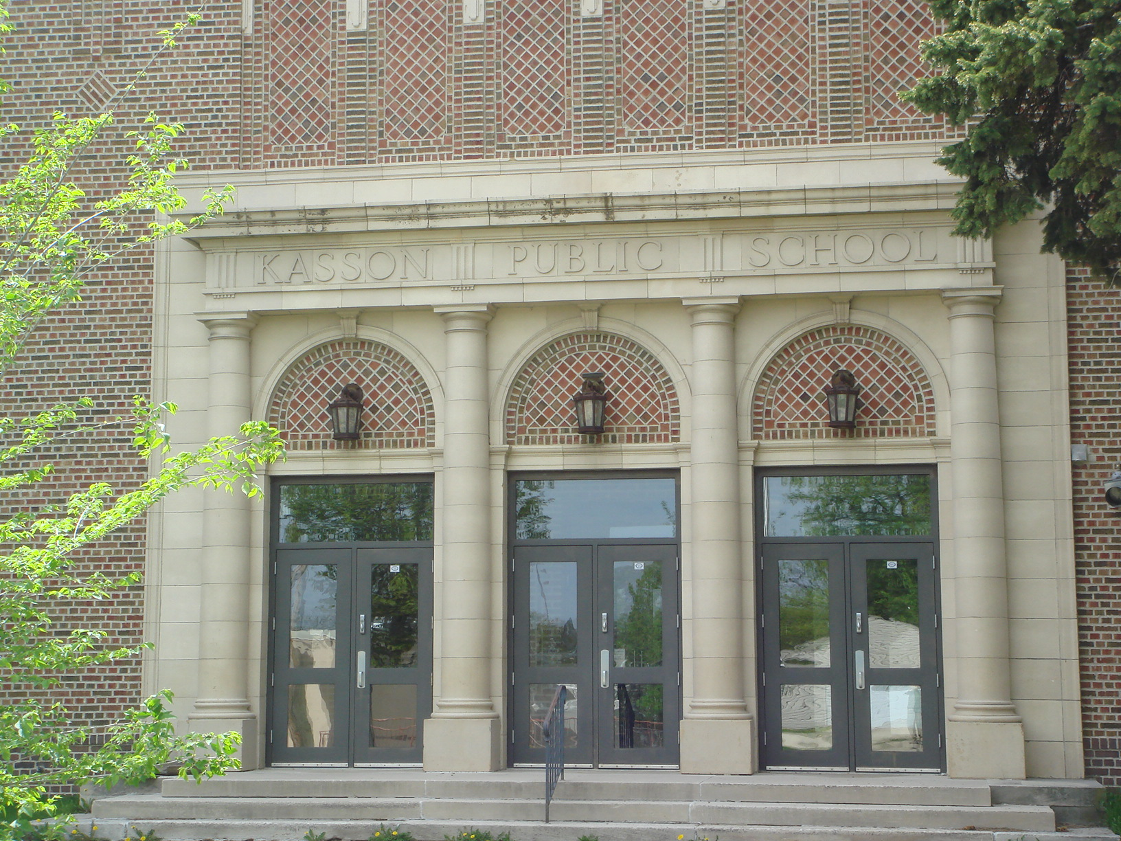 Kasson Public School, Kasson, Minnesota